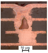 a cross-section view of a microvia with a void, inside a multilayer printed circuit board.